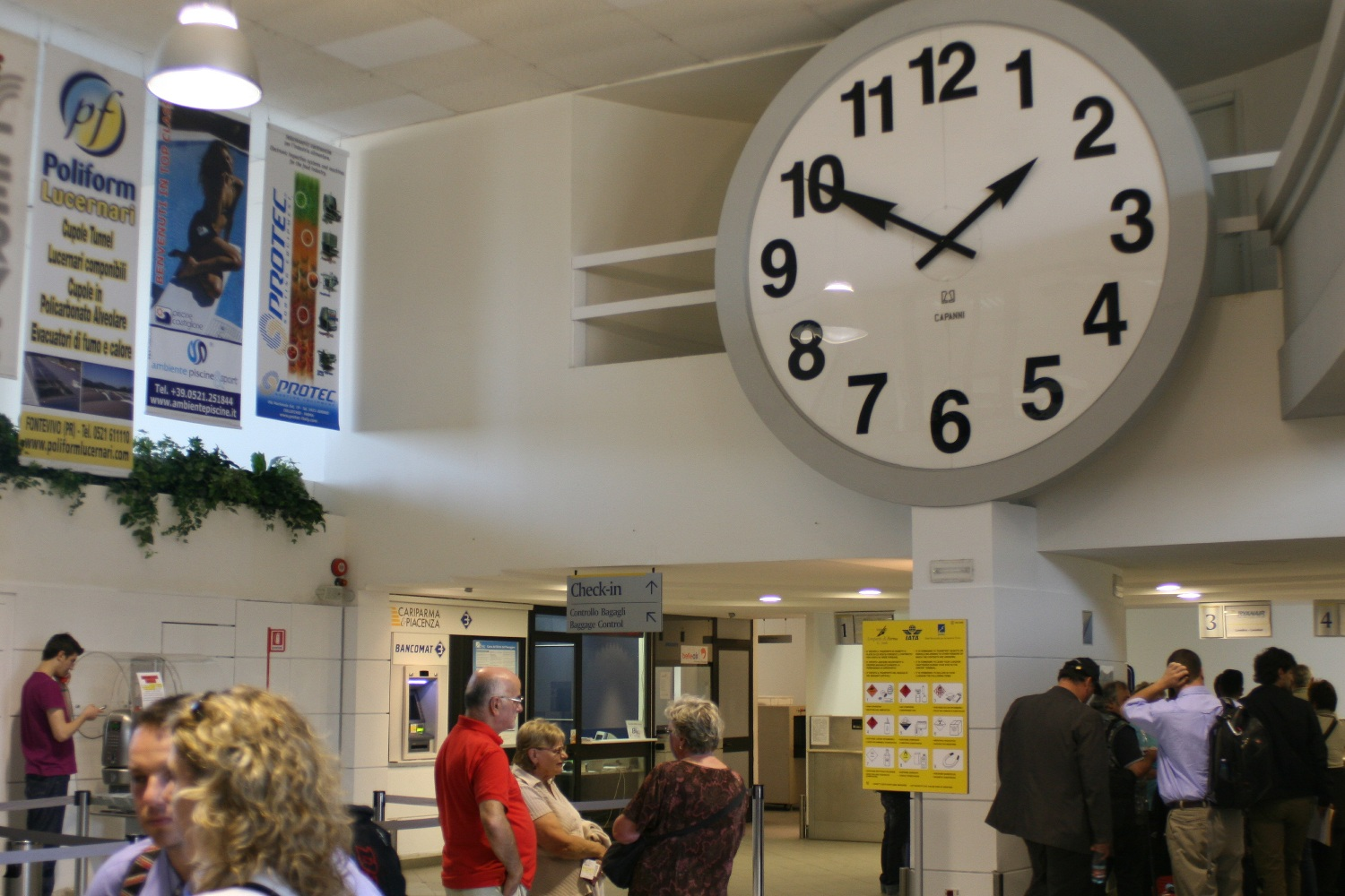 Inside Parma Airport, at the check-in.